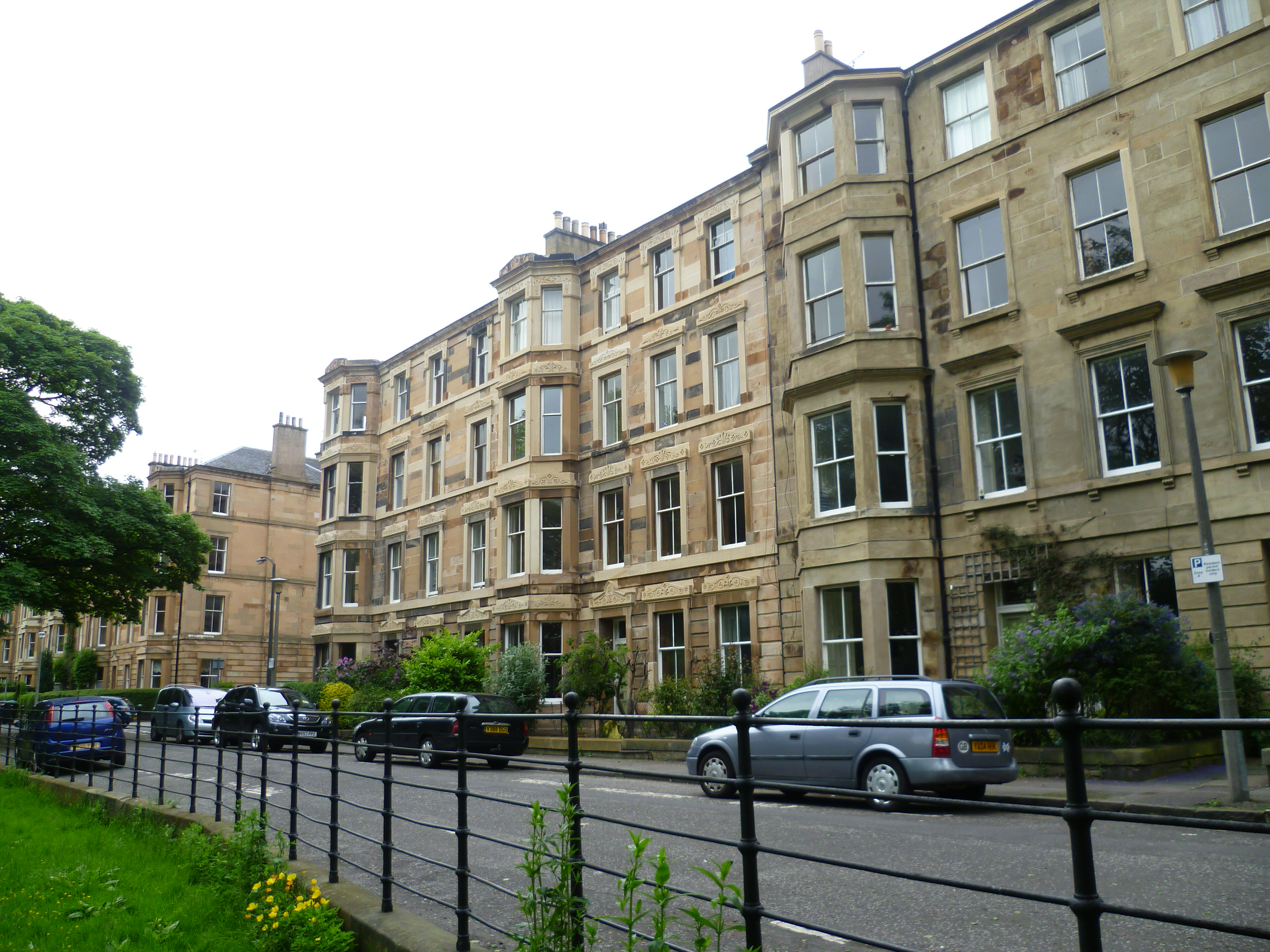 Street on the southern edge of Lauriston overlooking the Meadows